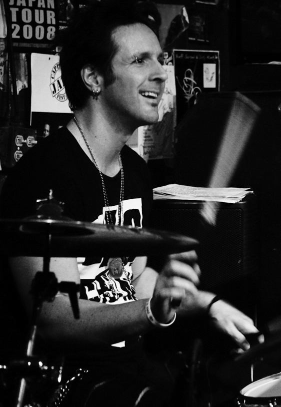 Glen Sobel at the Baked Potato in Studio City